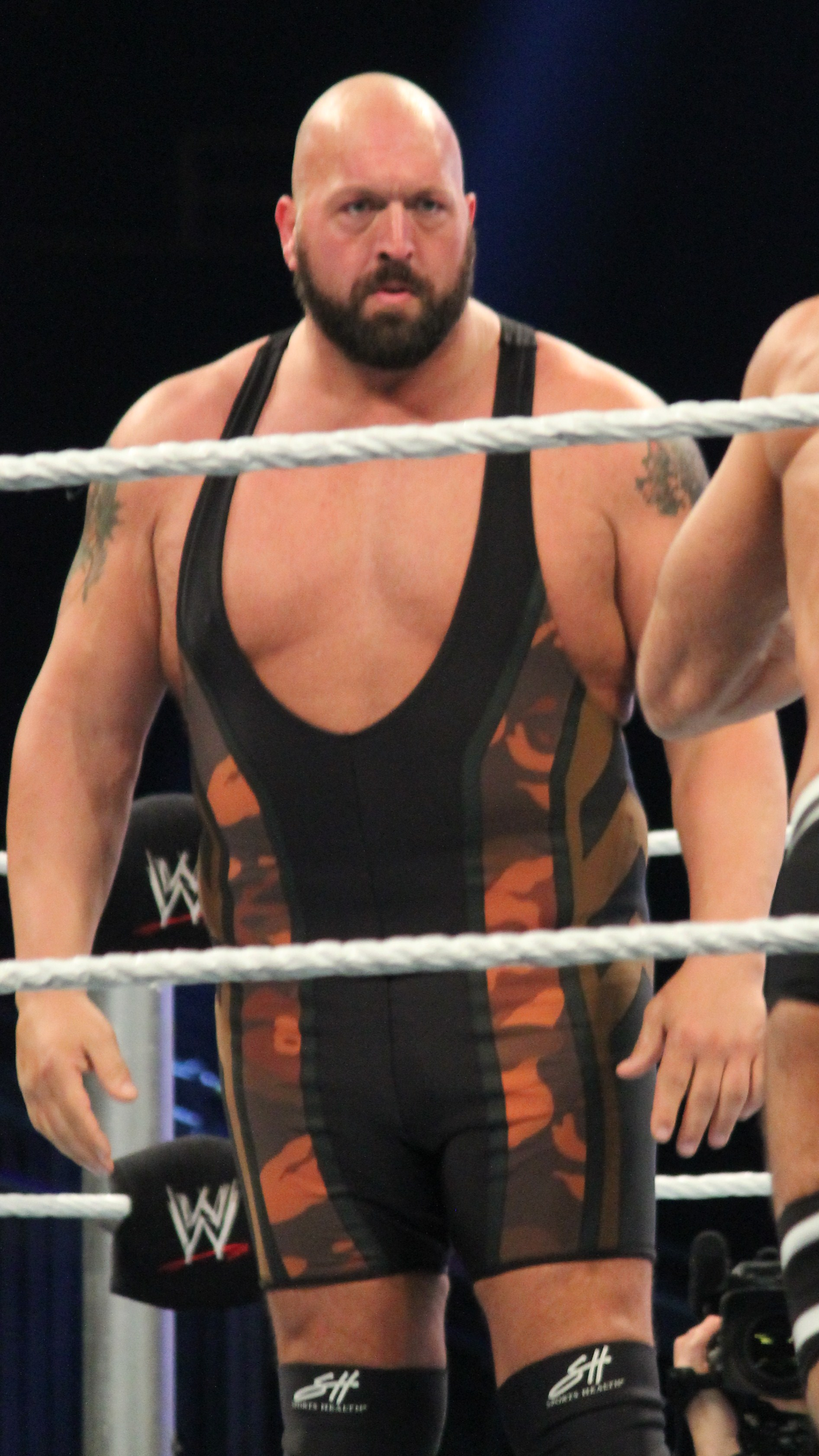 Big Show at the post-WrestleMania SmackDown tapings on 8 April 2014 in Lafayette.